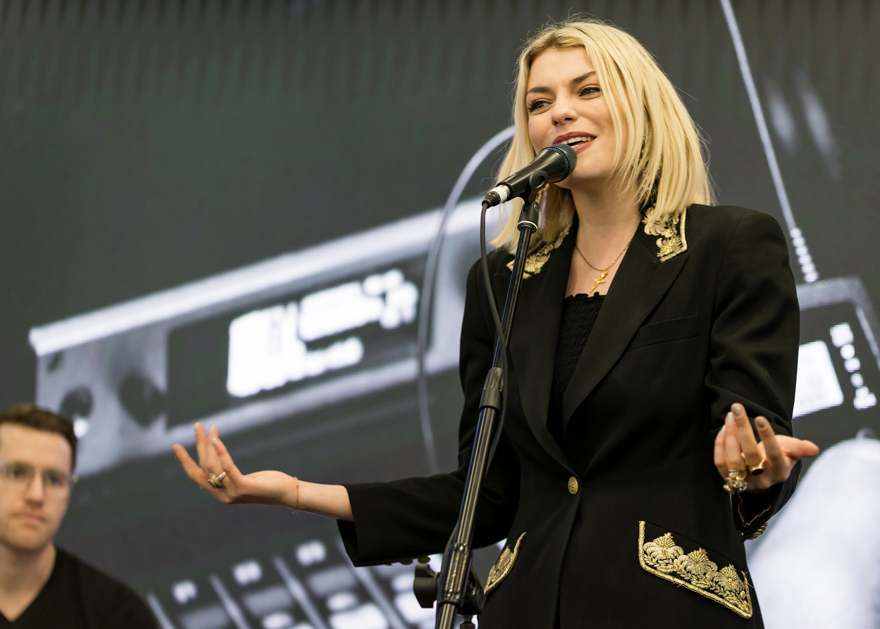 Lola Lennox performing in the Sennheiser booth at the Winter NAMM Show in Anaheim, Orange County, California, on Saturday, January 27, 2018.